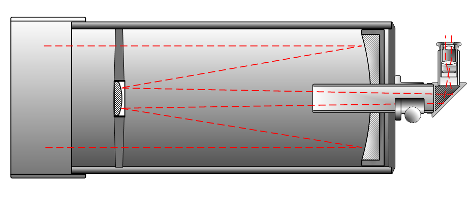 Cassegrain telescope design.